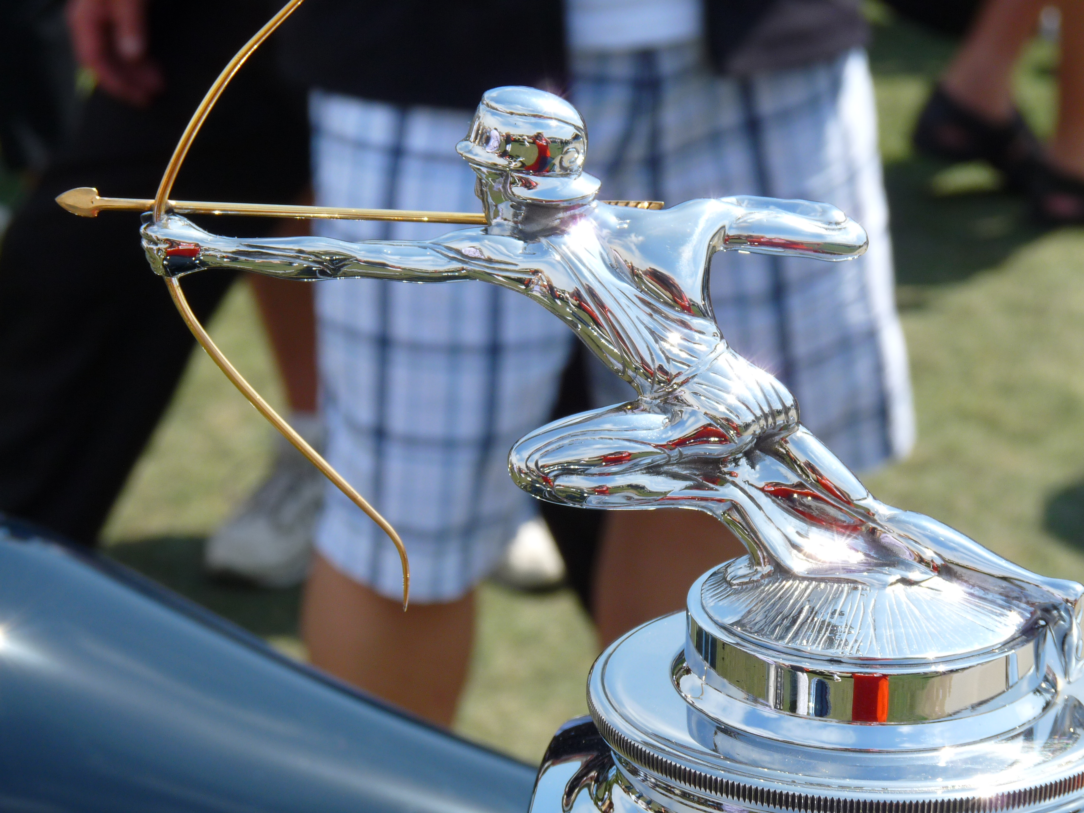 1930 Pierce-Arrow B Waterhouse Convertible Victoria